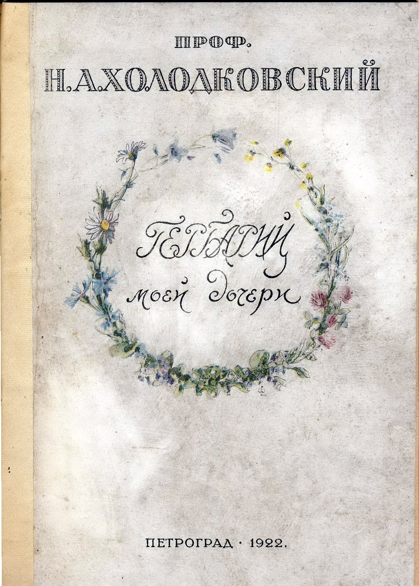 A title page of the book: collection of poems written by N.A. Kholodkovskii, published in Petrograd.